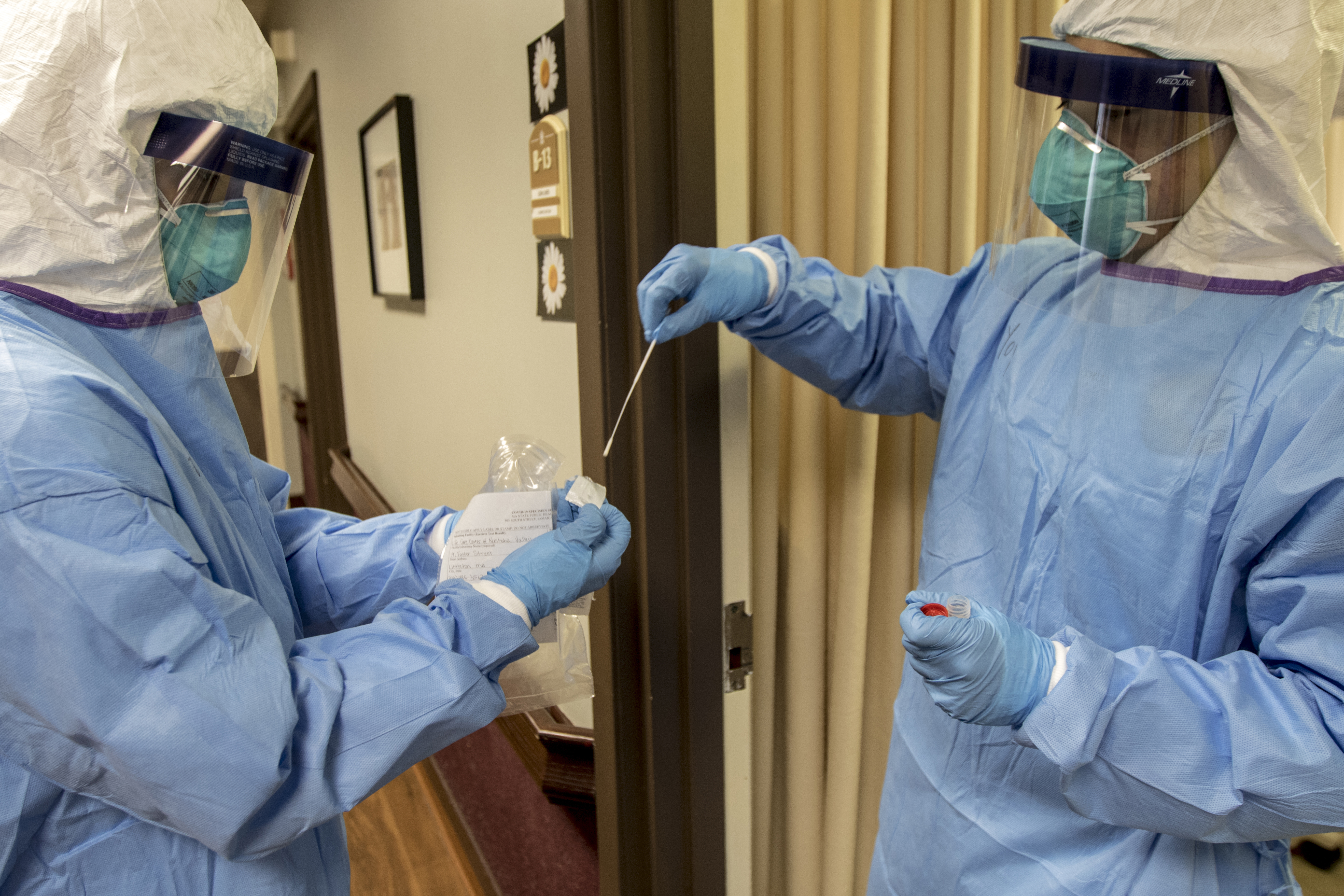 LITTLETON, Mass. – A medic with the Massachusetts National Guard takes a nasal swab that will be used to test for COVID-19 with a resident of the Life Care Center of Nashoba Valley, Littleton, Mass., April 3, 2020. The Massachusetts National Guard worked with the facility’s staff to administer COVID-19 tests to help prevent the spread of the virus. (Army National Guard Photo by Staff Sgt. Kenneth Tucceri)